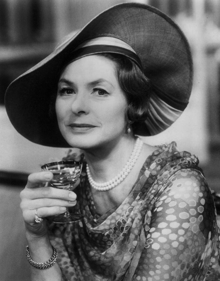 Photo of Ingrid Bergman as Constance Middleton from a revival of the play The Constant Wife.